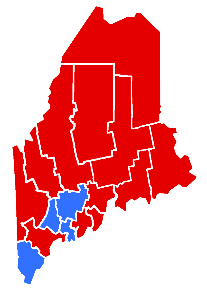 Maine gubernatorial election in 1938, county by county. Made in photoshop